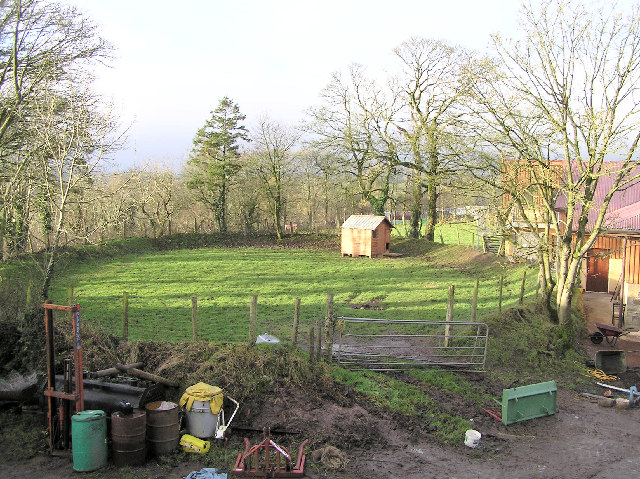 Rath near Clanabogan Community Centre. The Camphill farm adjoins this rath. I was able to get this view looking down on it from the first floor of a farm building. It gives you a good indication of the circular shape. I had a chat with one of the volunteer workers who came from Germany, and he informs me that he has come for a year to take part in the eco-friendly farming activities and help disabled people who attend or live in the campus.